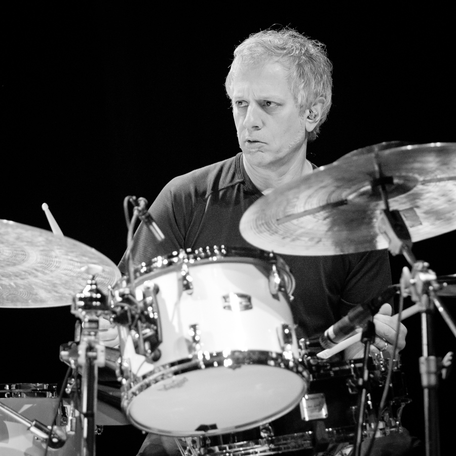 Dave Weckl with Chick Corea's Akoustic Band in Kongsberg Musikkteater. The concert was part of Kongsberg Jazzfestival and took place on 06. July 2018 in Kongsberg. Lineup:Chick Corea (piano)John Patitucci (double bass)Dave Weckl (drums)Marius Neset (saxophone)